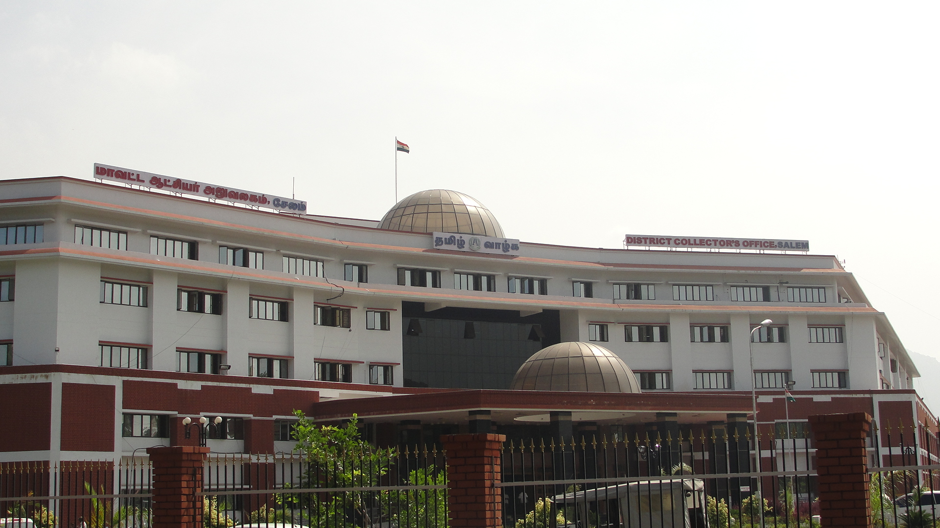 A long shot of Salem Collectorate, Tamil Nadu, India